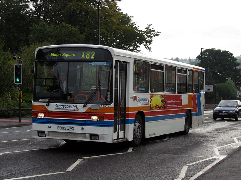 Stagecoach Busways 28903 (F903 JRG), a 1989 Scania N113/Alexander PS type, around Newcastle, on route X82.